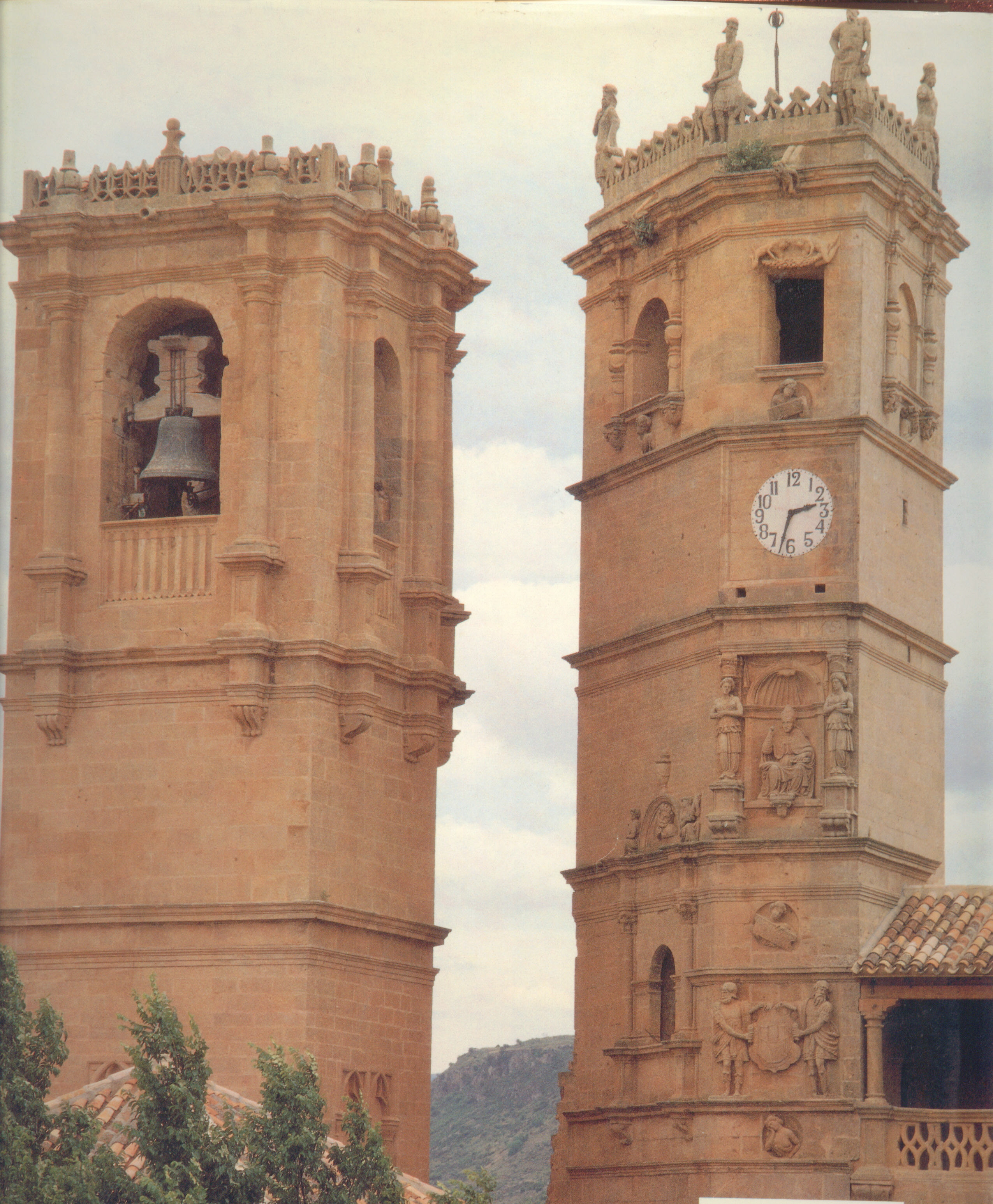 Alcaraz, Spain, landmarks/monuments frm 16C